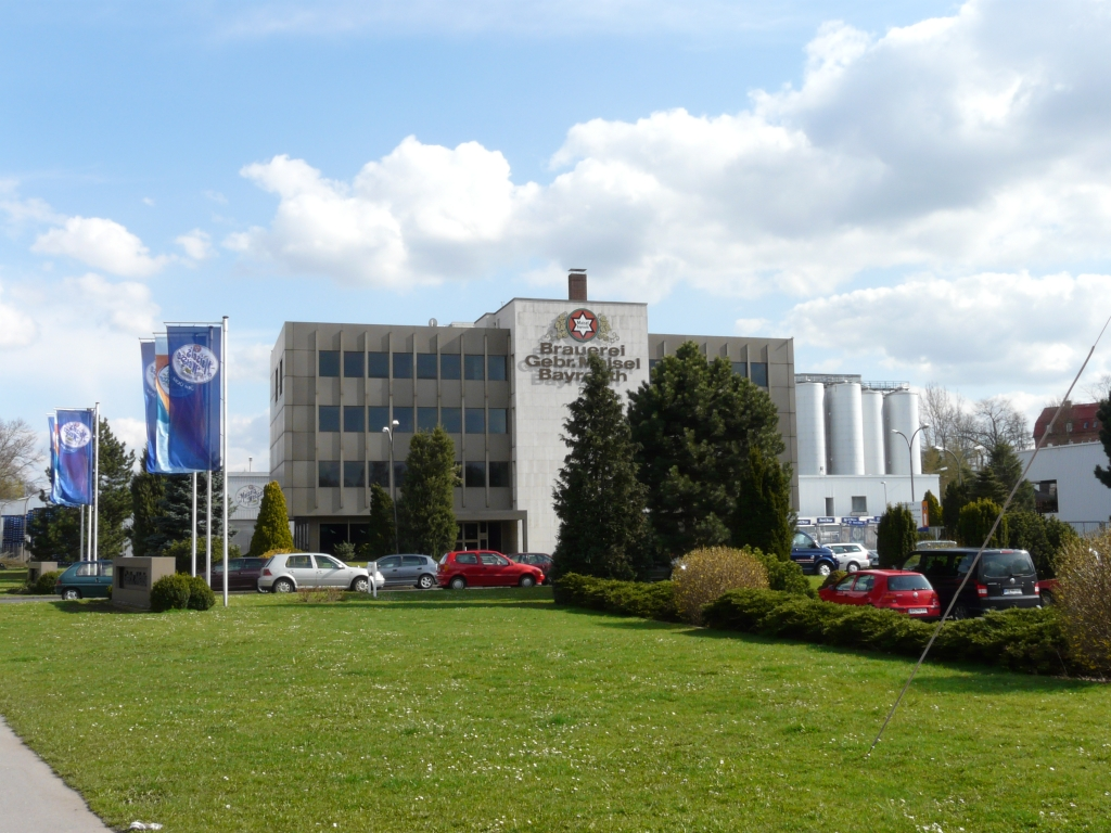 Administrative building of the brewery Gebrüder Maisel, Bayreuth.